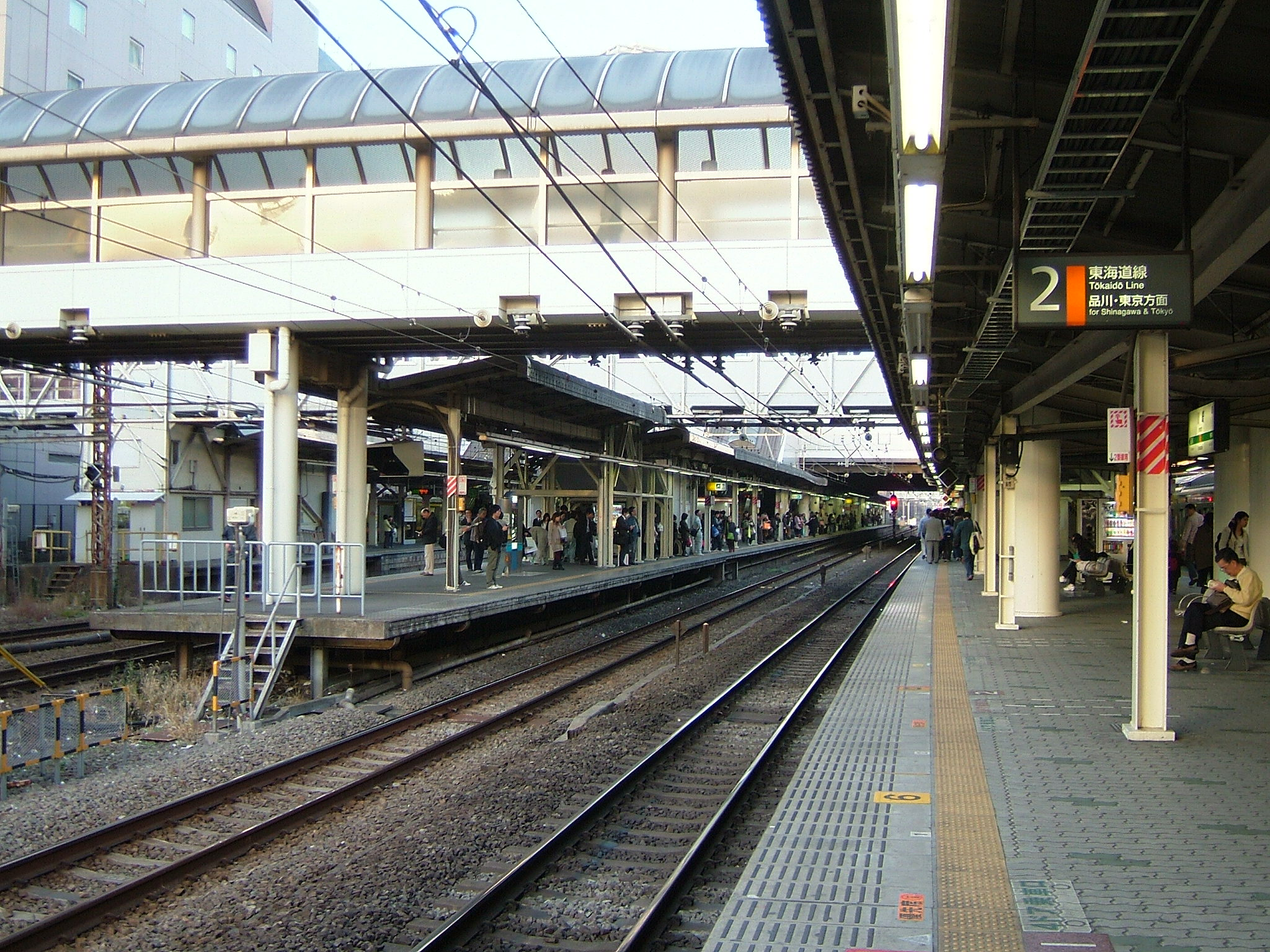 Platform of Kawasaki Station (Seen from Platform of Tokaido Line)